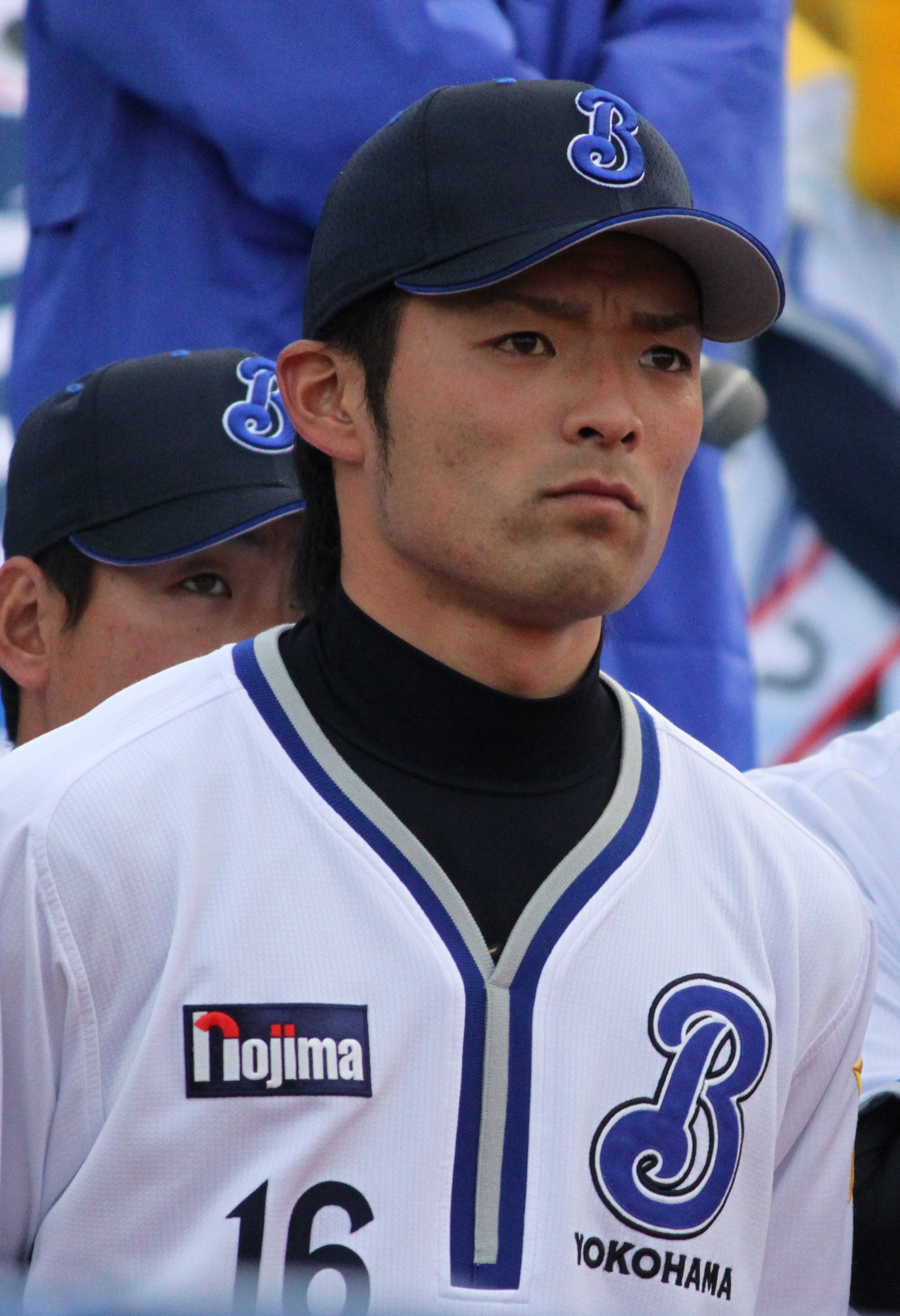 Shigeru Kaga, pitcher of the Yokohama BayStars, at Yokohama Stadium.